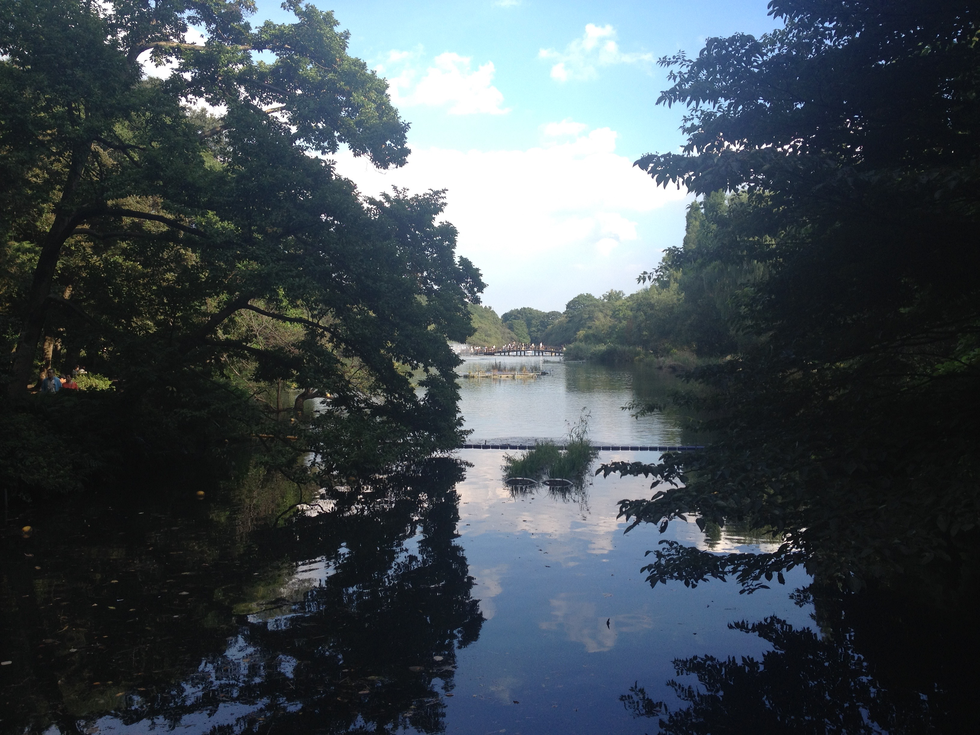 A scenic view in Inokashira Park in Mitaka, a suburb of Tokyo.